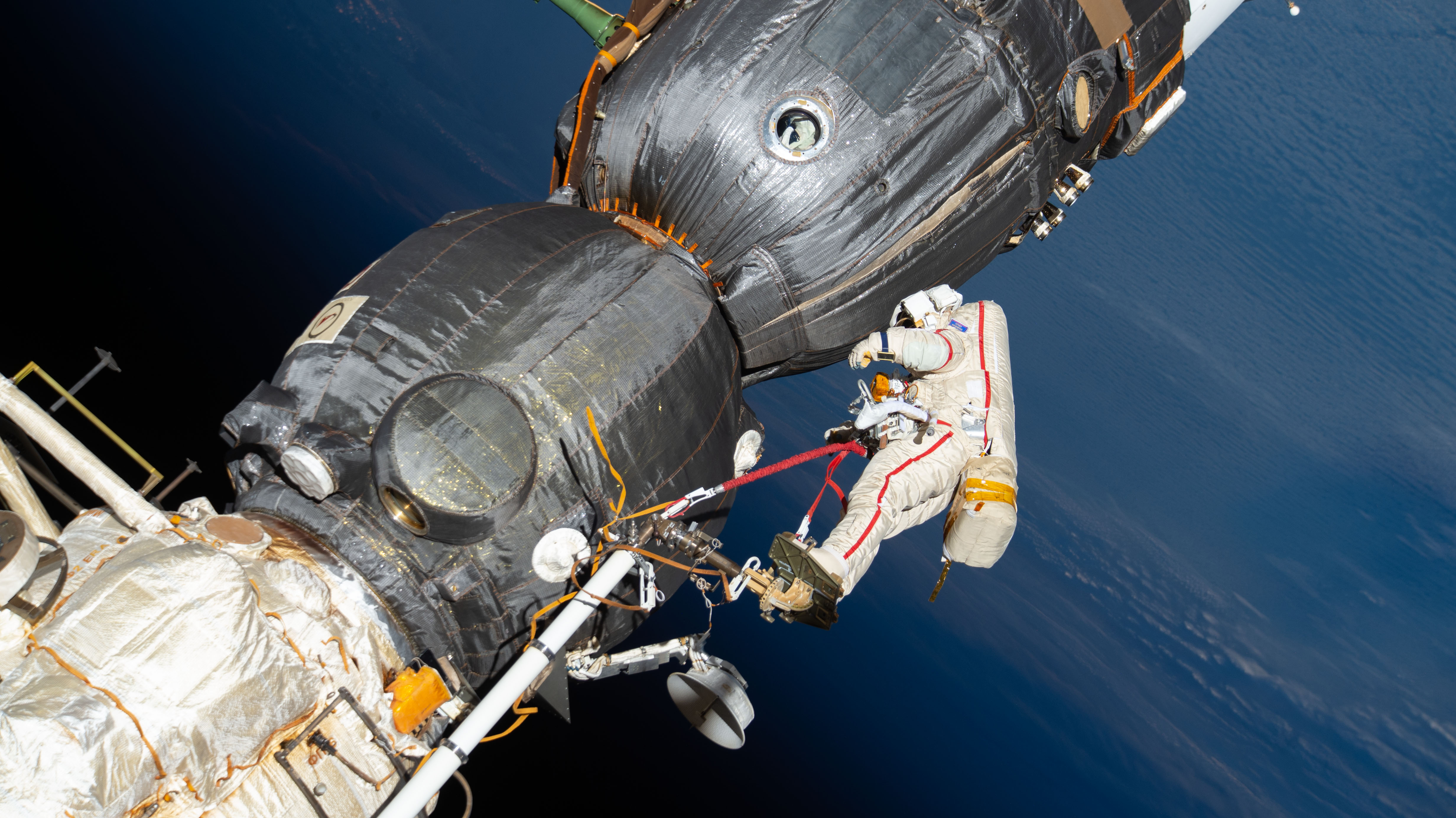 Russian spacewalker Oleg Kononenko (suit with red stripes) works outside the International Space Station over 250 miles above Earth to inspect the Soyuz MS-09 spacecraft. During the spacewalk, he and fellow spacewalker Sergey Prokopyev (out of frame) examined the external hull of the Soyuz crew ship docked to the Rassvet module. The area corresponded with the location of a small hole inside the Soyuz habitation module that was found in August and caused a decrease in the space station’s pressure. The hole was fixed internally with a sealant within hours of its detection. During the spacewalk, Kononenko and Prokopyev collected samples of some of the sealant that extruded through hole to the outer hull before heading back inside the Pirs docking compartment and closing the hatch completing a seven-hour, 45-minute spacewalk.